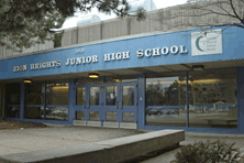 Zion Heights Junior High School, in Toronto, Ontario, Canada. Please refer to Zion Heights Junior High School article.